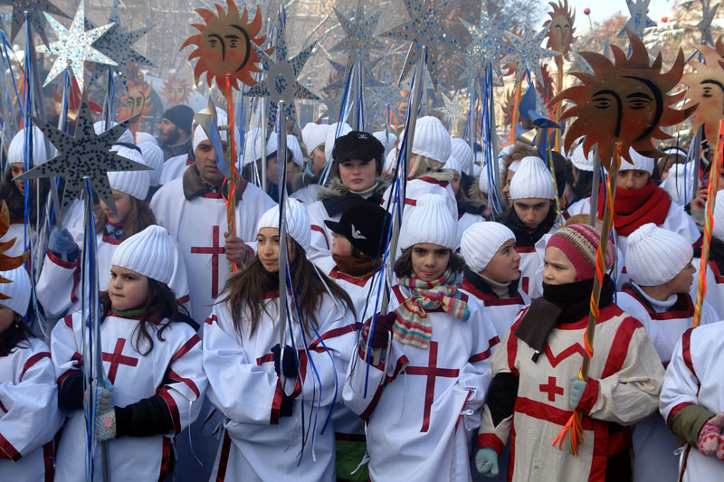 Christmas march "Alilo" in the streets of Tbilisi, Georgia